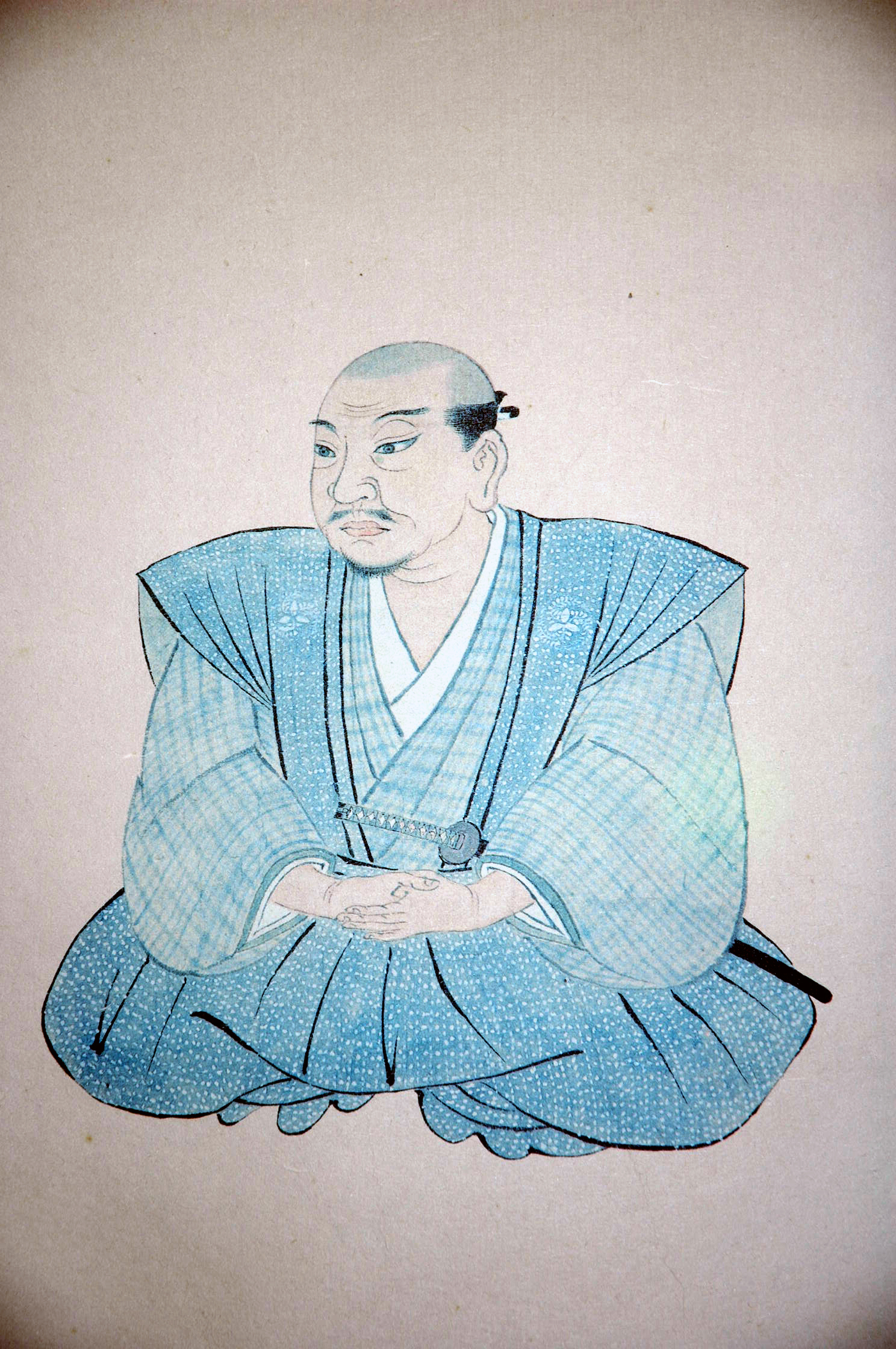 photo of Nakae Tōju portrait(Japanese scholar of Confucianism in the early Edo period)